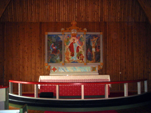 Altar of Mazi Church, KAutokeino, Norway